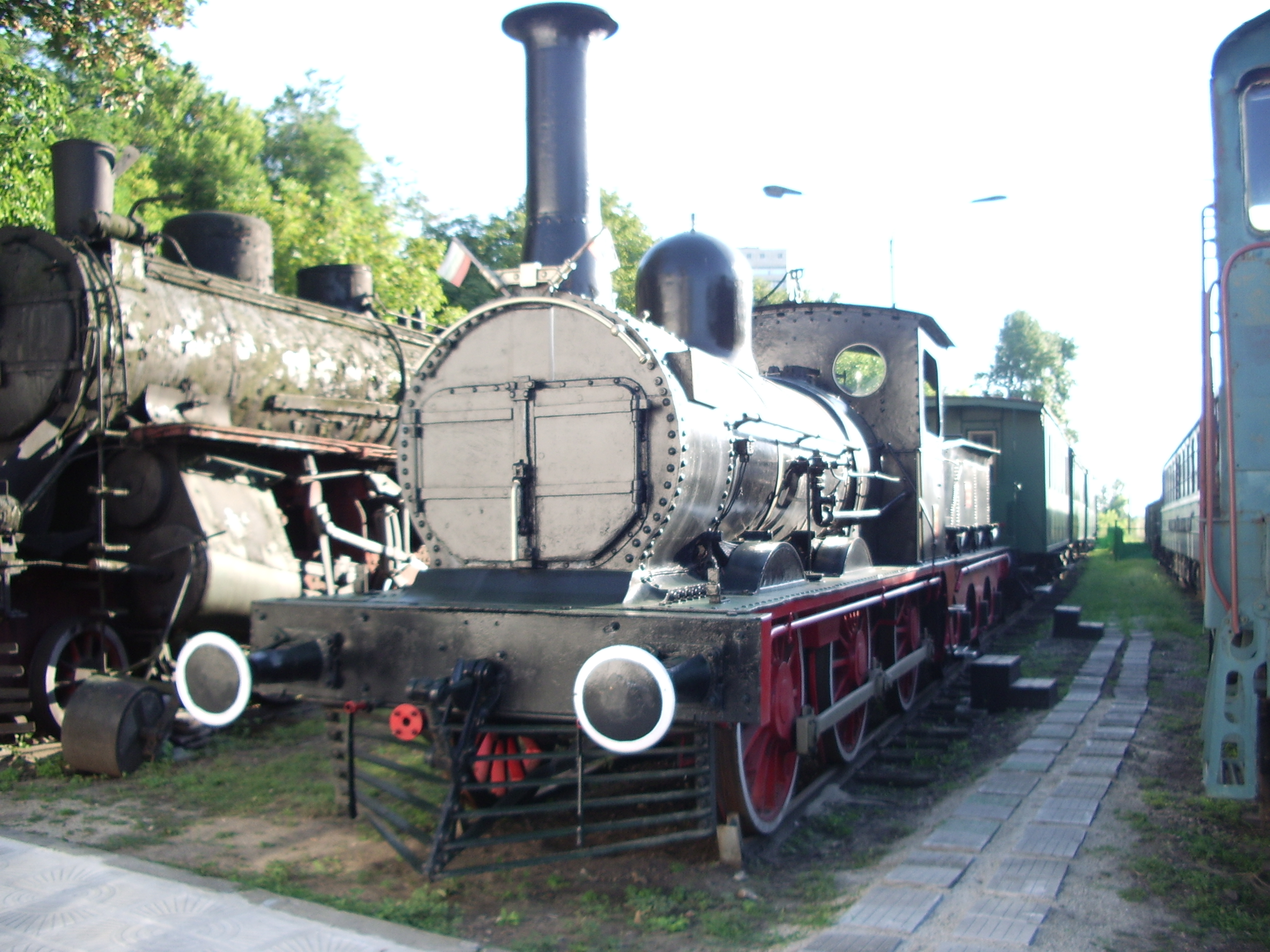 A shot from the National Transport Museum in Rousse, Bulgaria. BDŽ 148, ex Chemins de fer Orientaux. Built by Sharp Stewart.